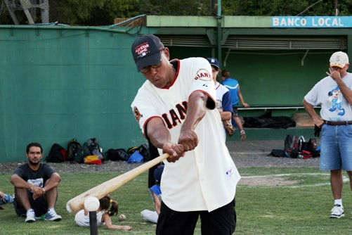 Baseball player and TV commentator Candy Maldonado during a free baseball clinic at the National Baseball Stadium in Argentina.